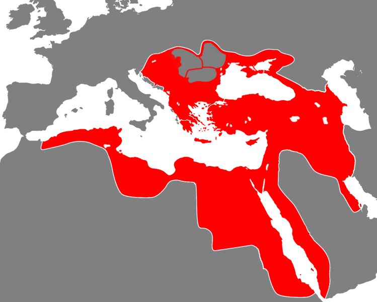 The Ottoman Empire during the 17th century